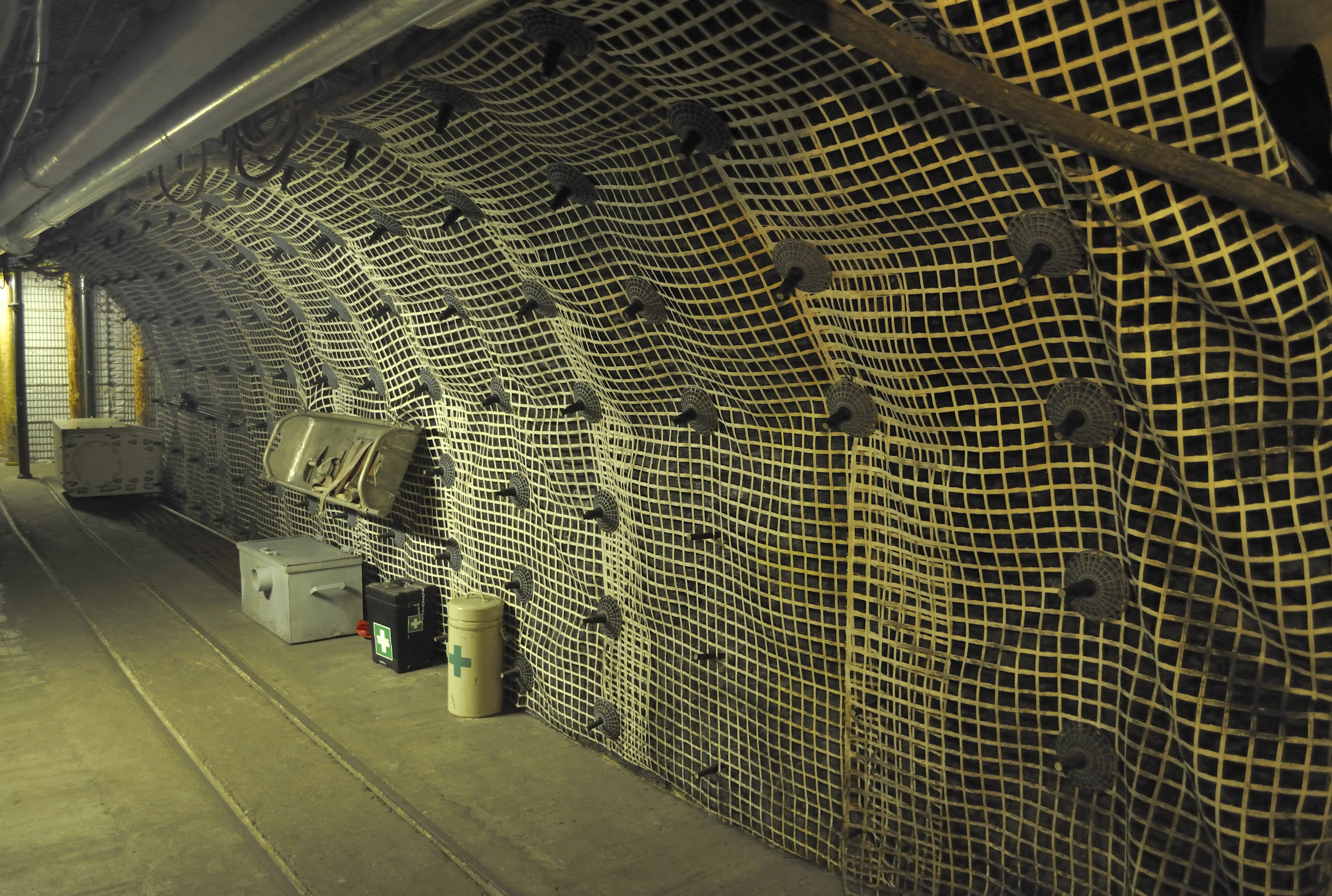 Picture taken in German mining museum Bochum before Duisburg summer meetup.